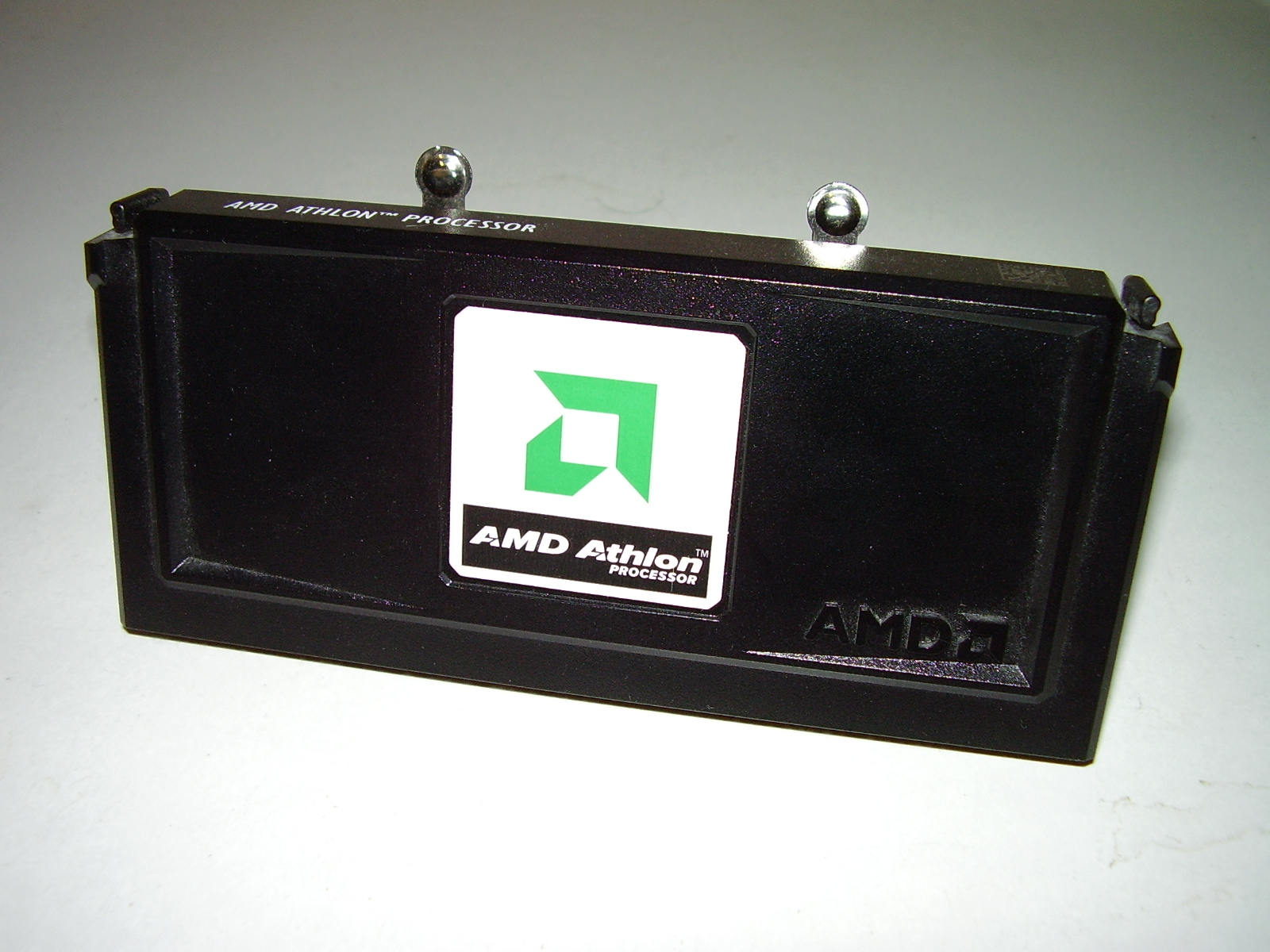 Athlon Classic 550